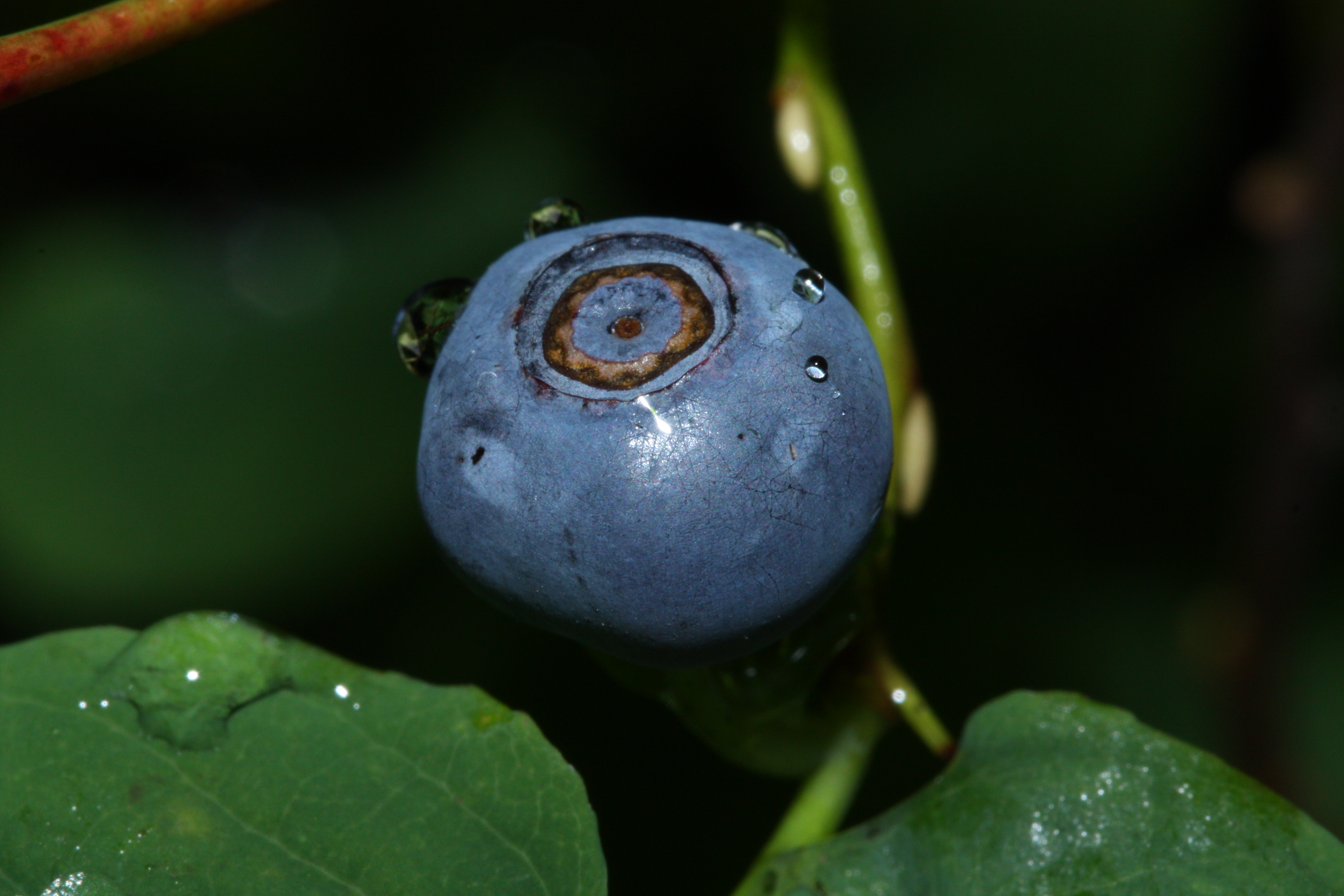 Oval-leaf Blueberry, Alaska Blueberry